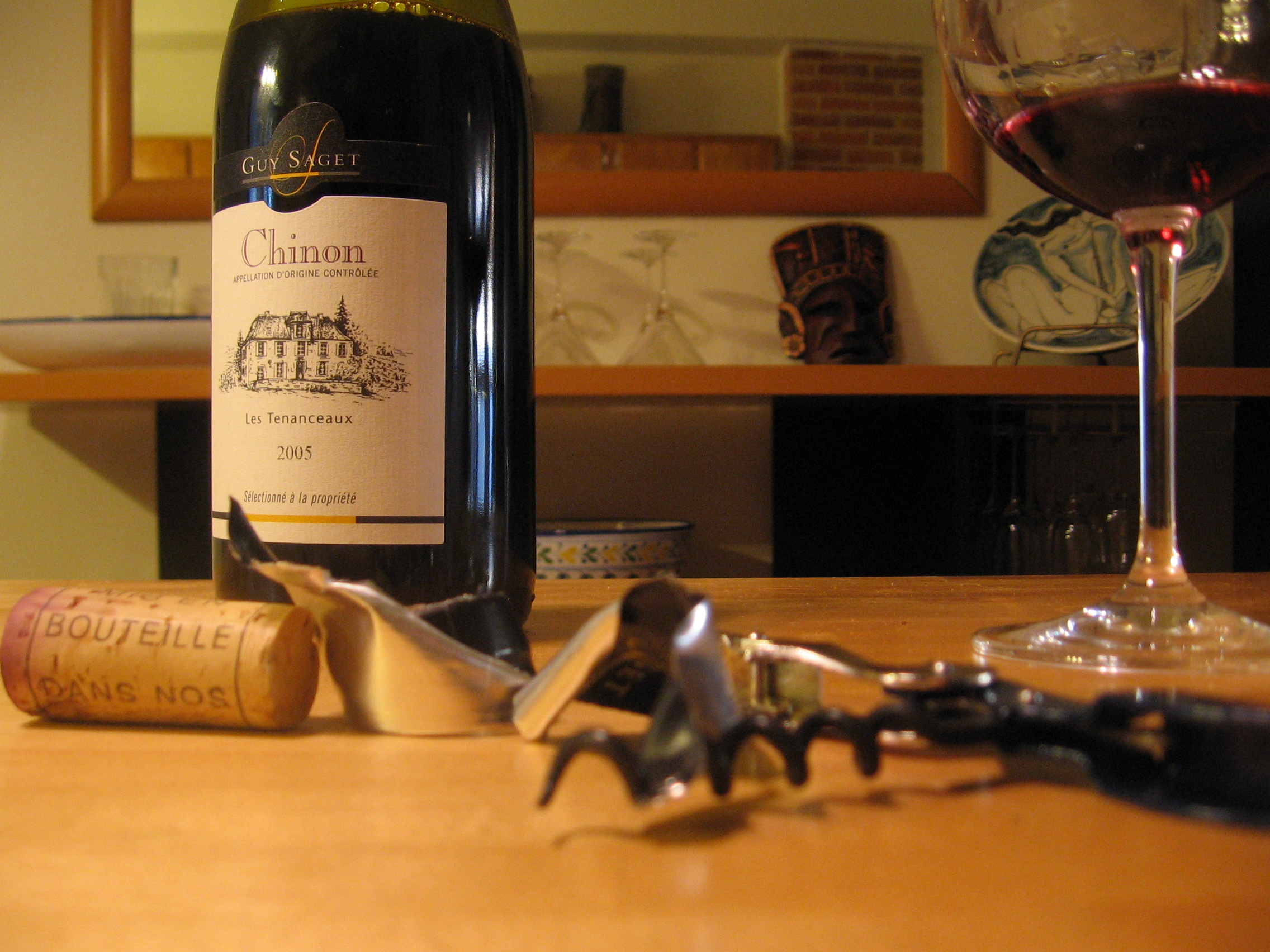 French red wine from the Loire Valley region of Chinon. Predominately Cabernet franc.